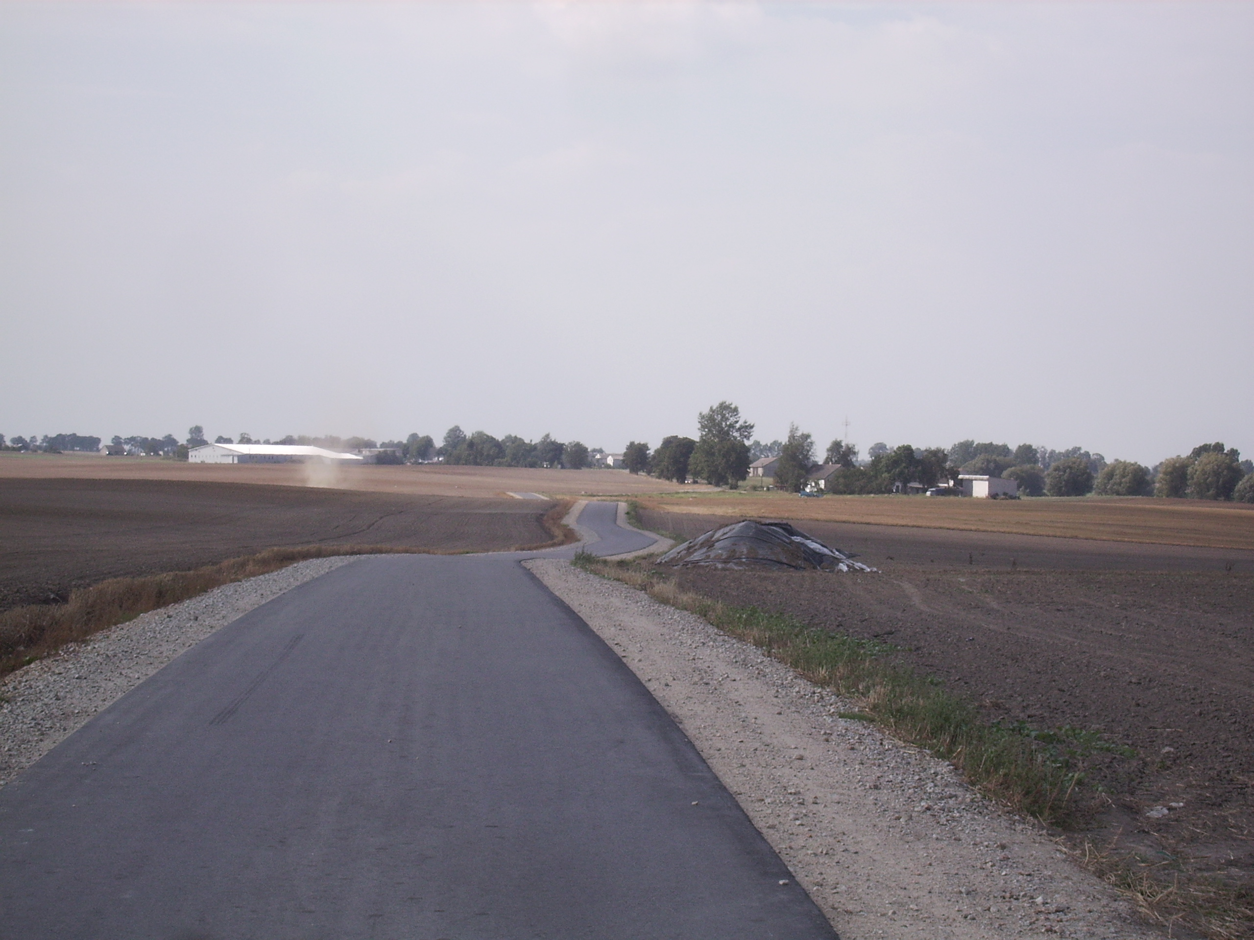 Village Żygląd